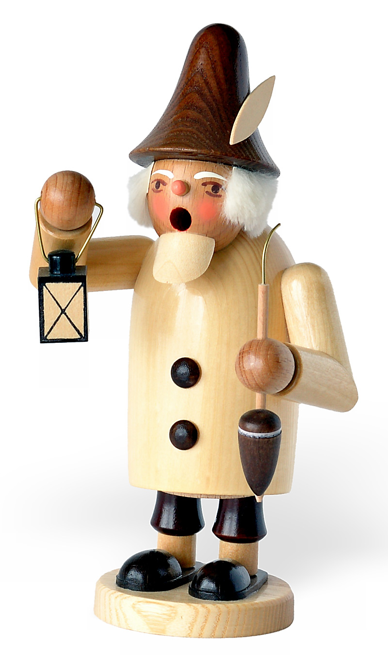 This image shows a "Räuchermännchen". The German word Räuchermännchen translates into english as, Little smoking man.